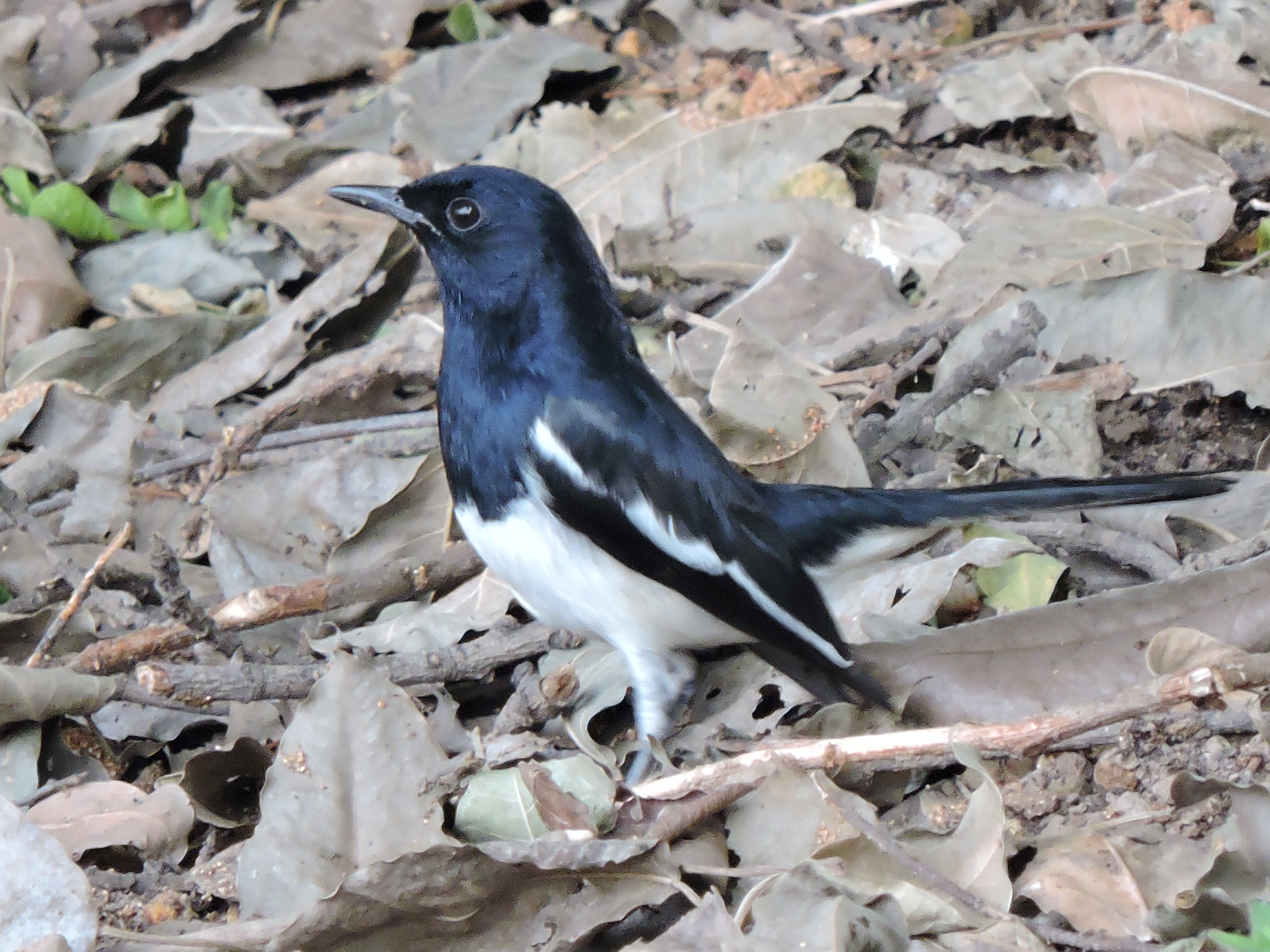 Oriental Magpie Robin, leisure valley park , Chandigarh, India